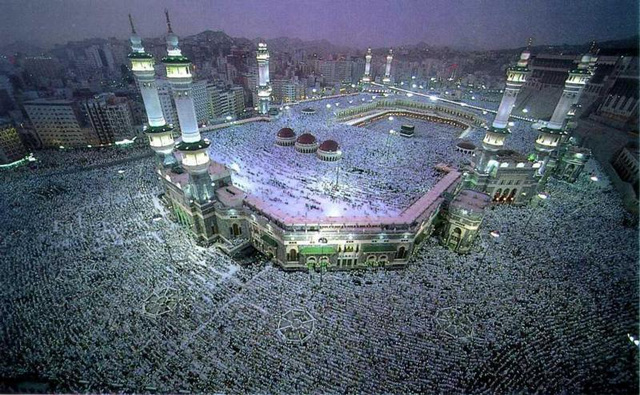 Mecca